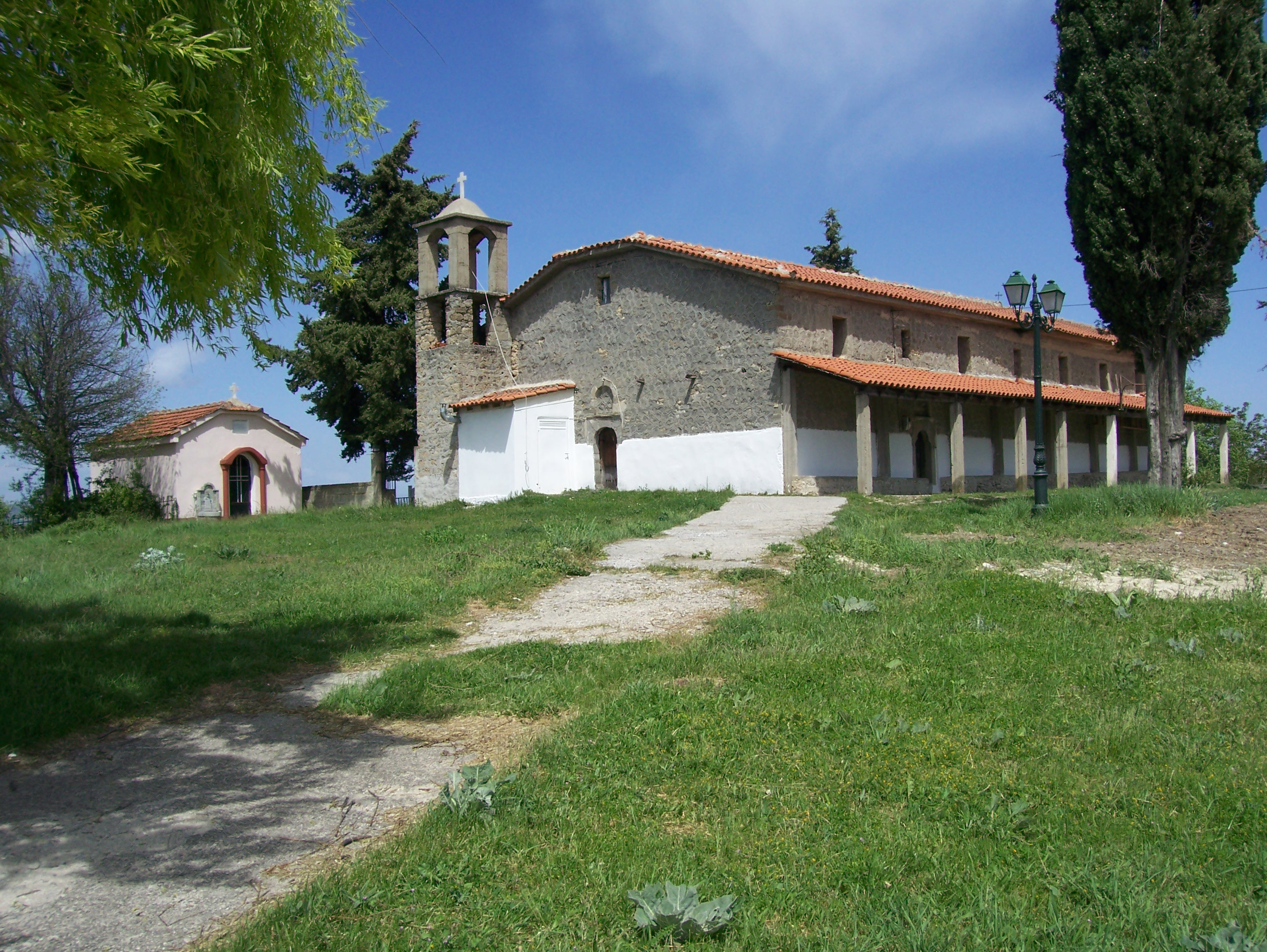 Mavronoros St Theodore Church